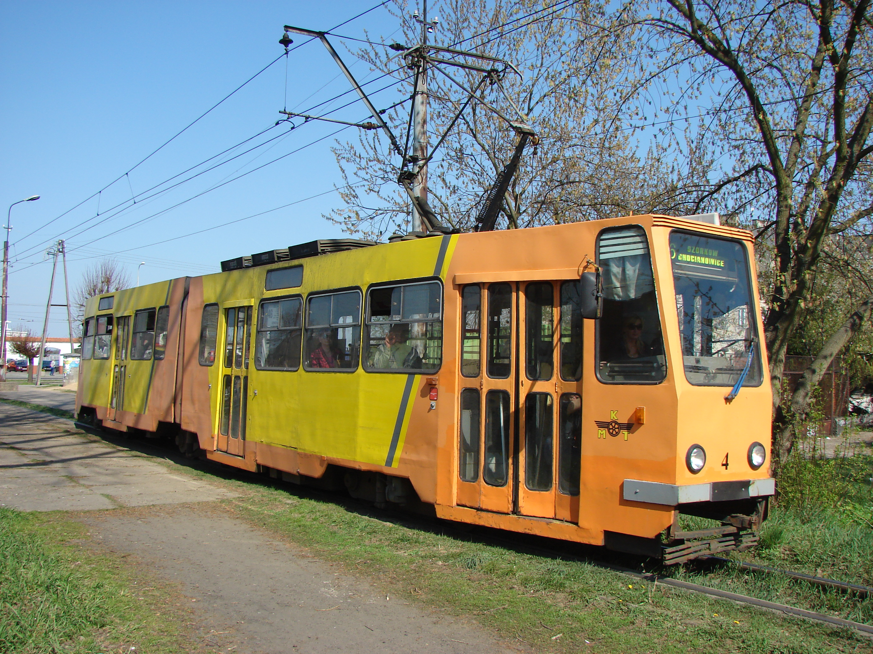 Modernized by Międzygminna Komunikacja Tramwajowa Sp. z o.o. tram wagon type 803N side number 4 on the stop in Ozorków (line 46)